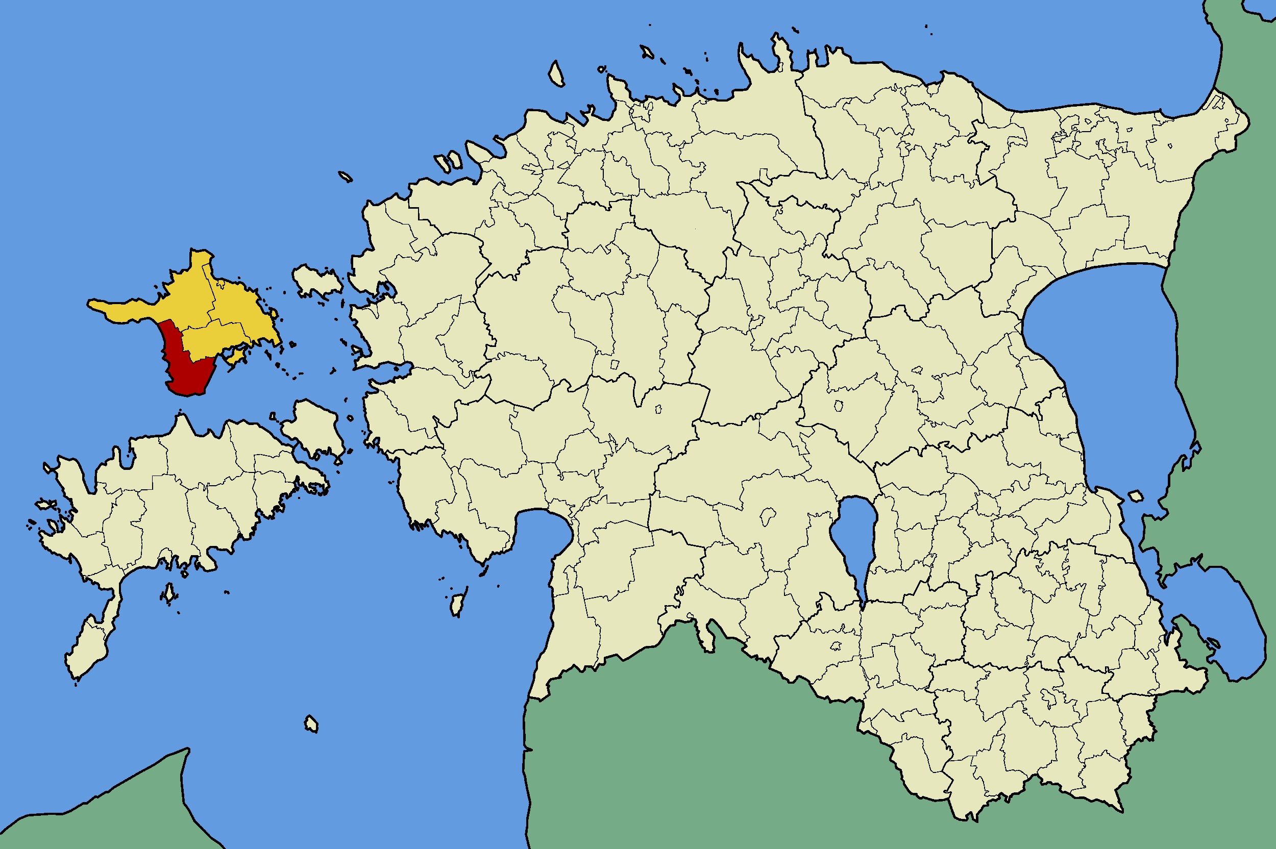 Map of Estonia with borders of municipalities (parishes). Hiiu county and Emmaste municipality emphasized.